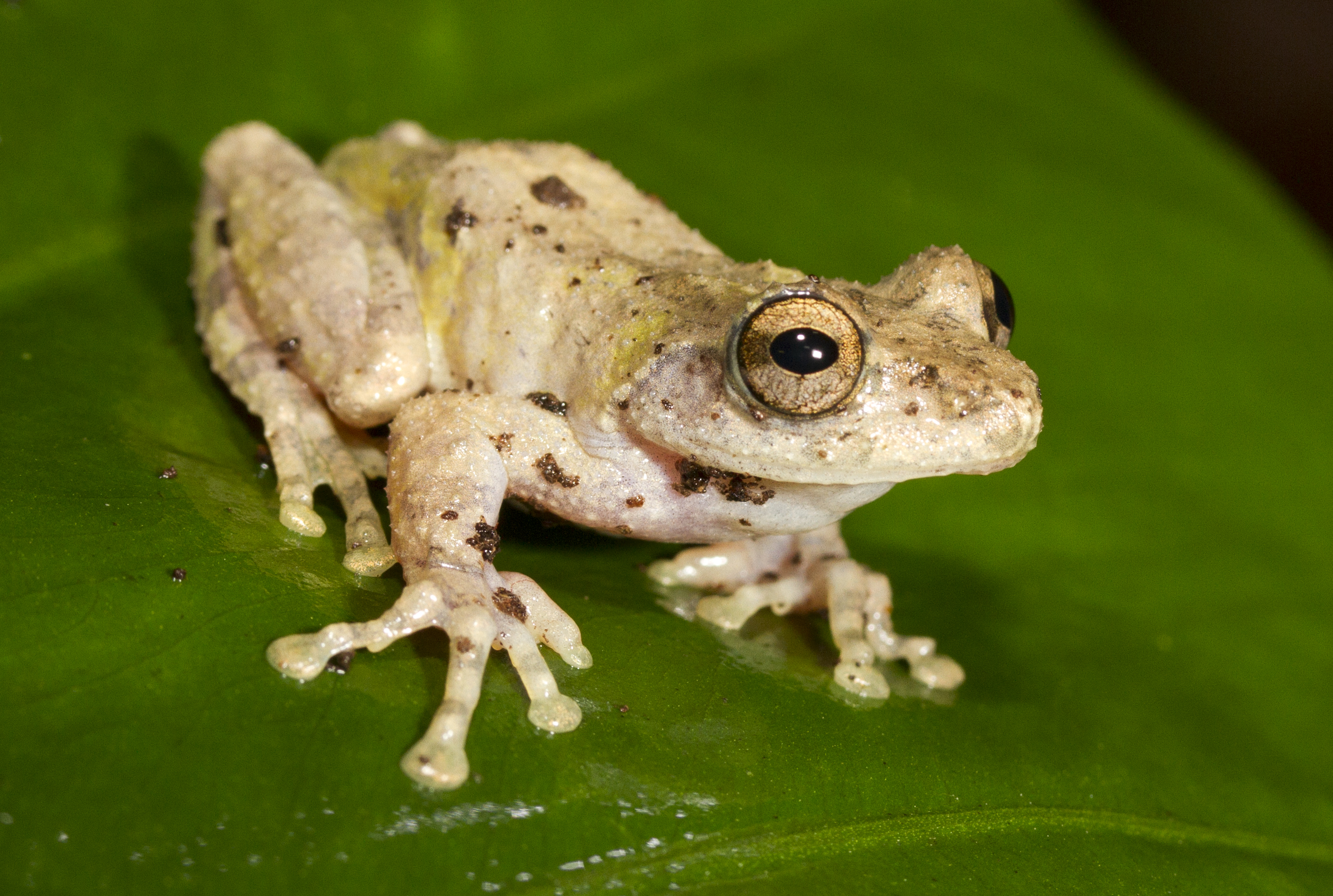 Kurixalus eiffingeri from Taiwan.